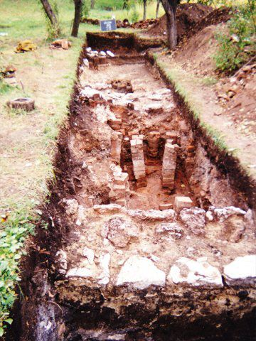 castru roman